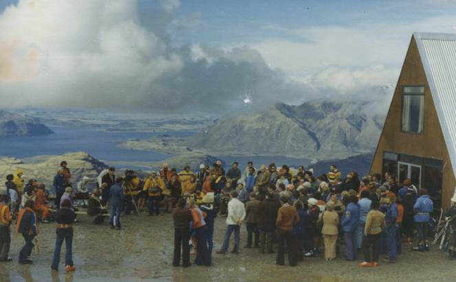 The first base lodge at Treble Cone (cira 1976)